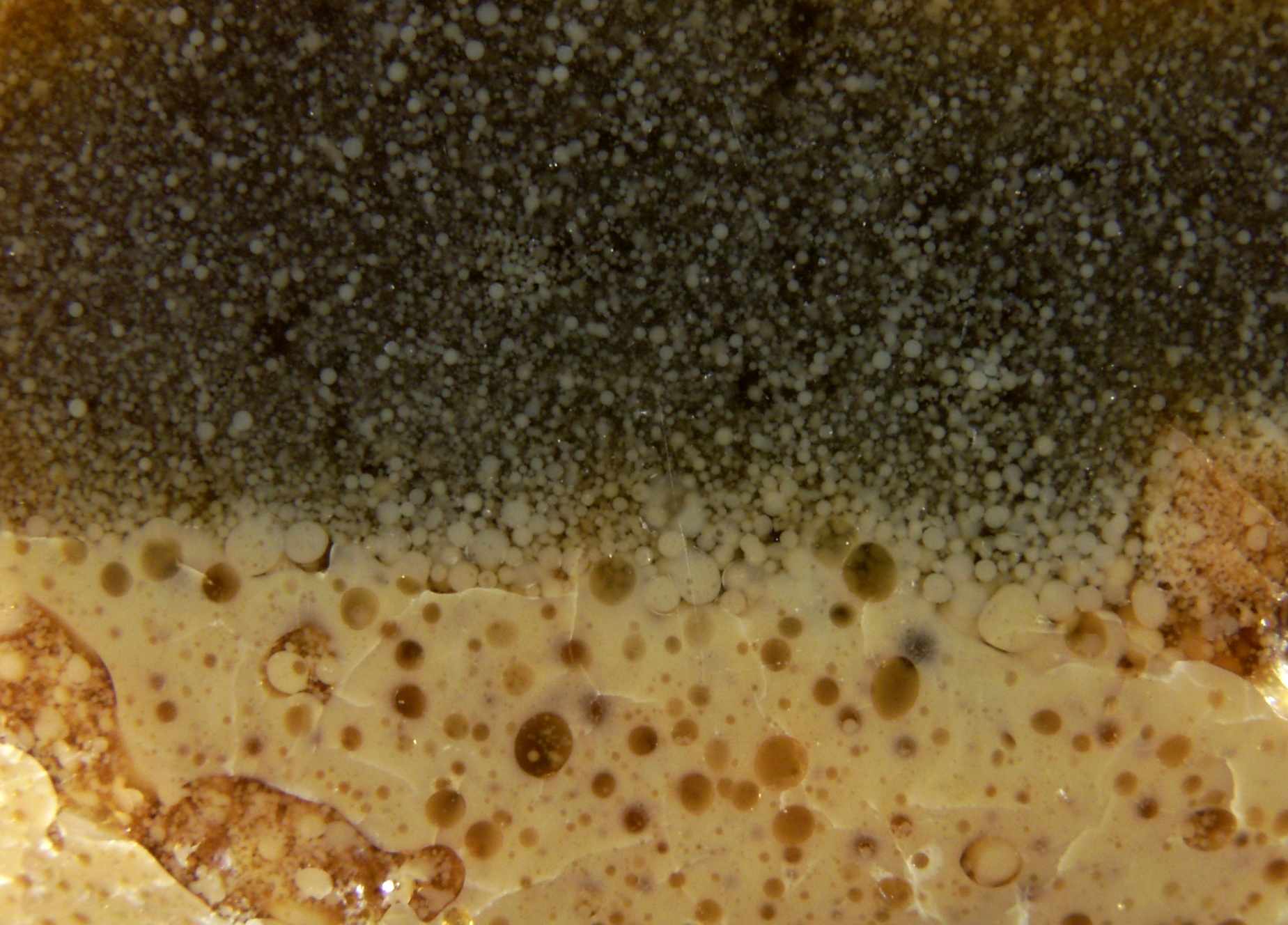 Amber from Bitterfeld, glessite